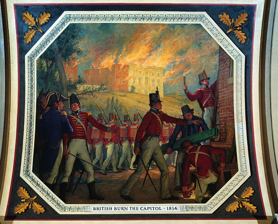 British Burn the Capitol, 1814, a painting by Allyn Cox in the Hall of Capitols, a corridor in the House side of the United States Capitol. It depicts the burning of Washington during the War of 1812. Cox had been hired to finish the Brumidi frieze in the Capitol's rotunda, and later painted a large number of murals elsewhere in the building.